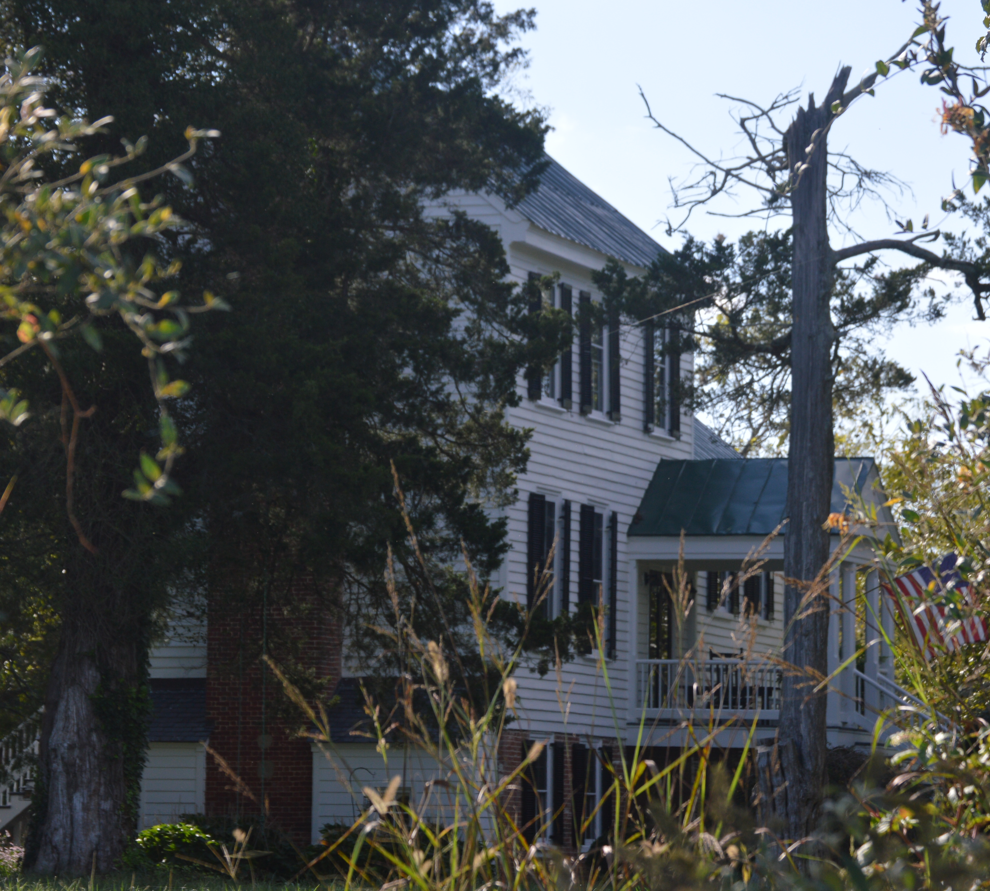 Through-the-trees view of Ingleside, located at 10920 Rodophil Road (at Rodophil) in Amelia County, Virginia, United States. Built in 1824, it is listed on the National Register of Historic Places.